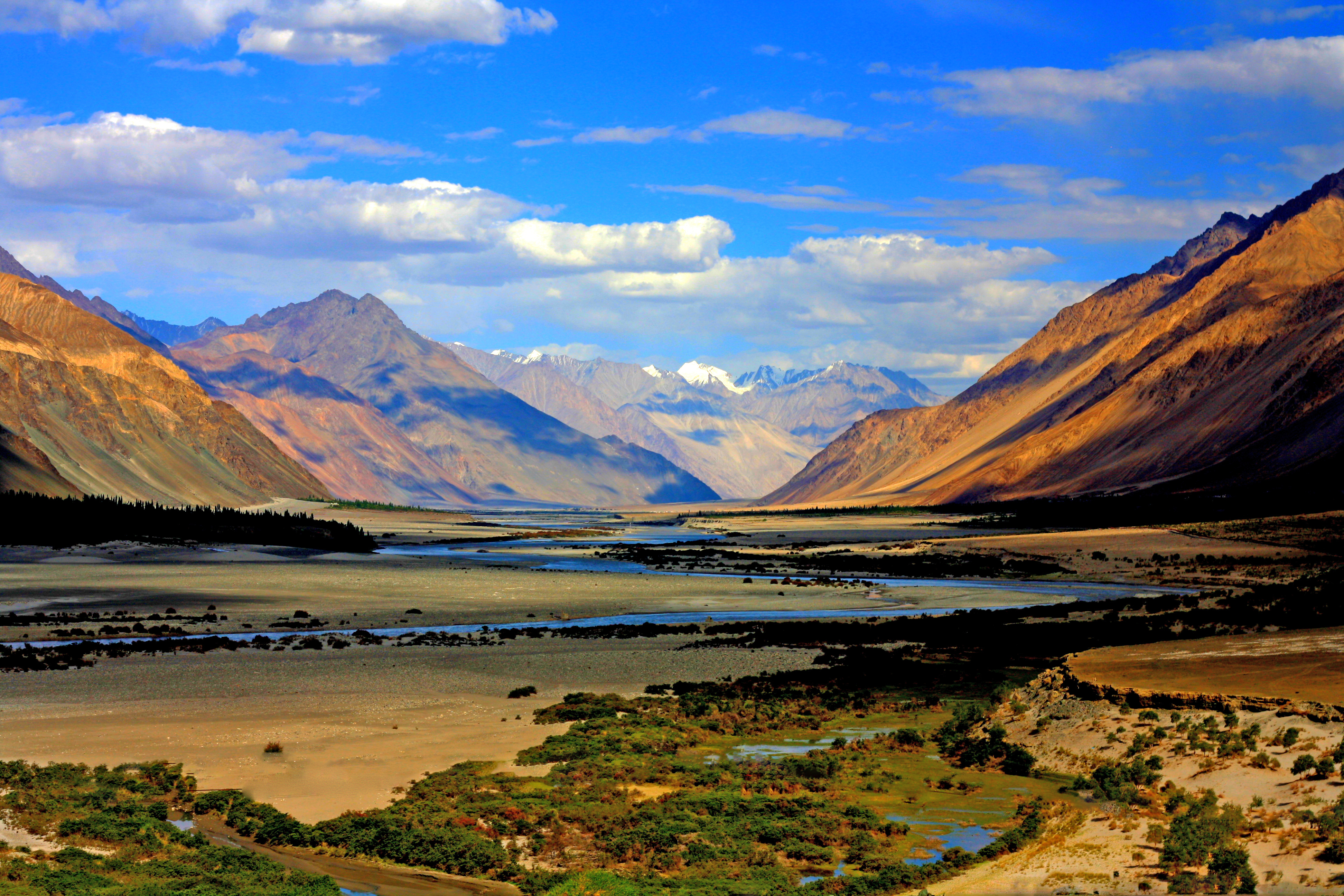 A wide angle panoramic view of the Himalayan river Zanskar ecosystem